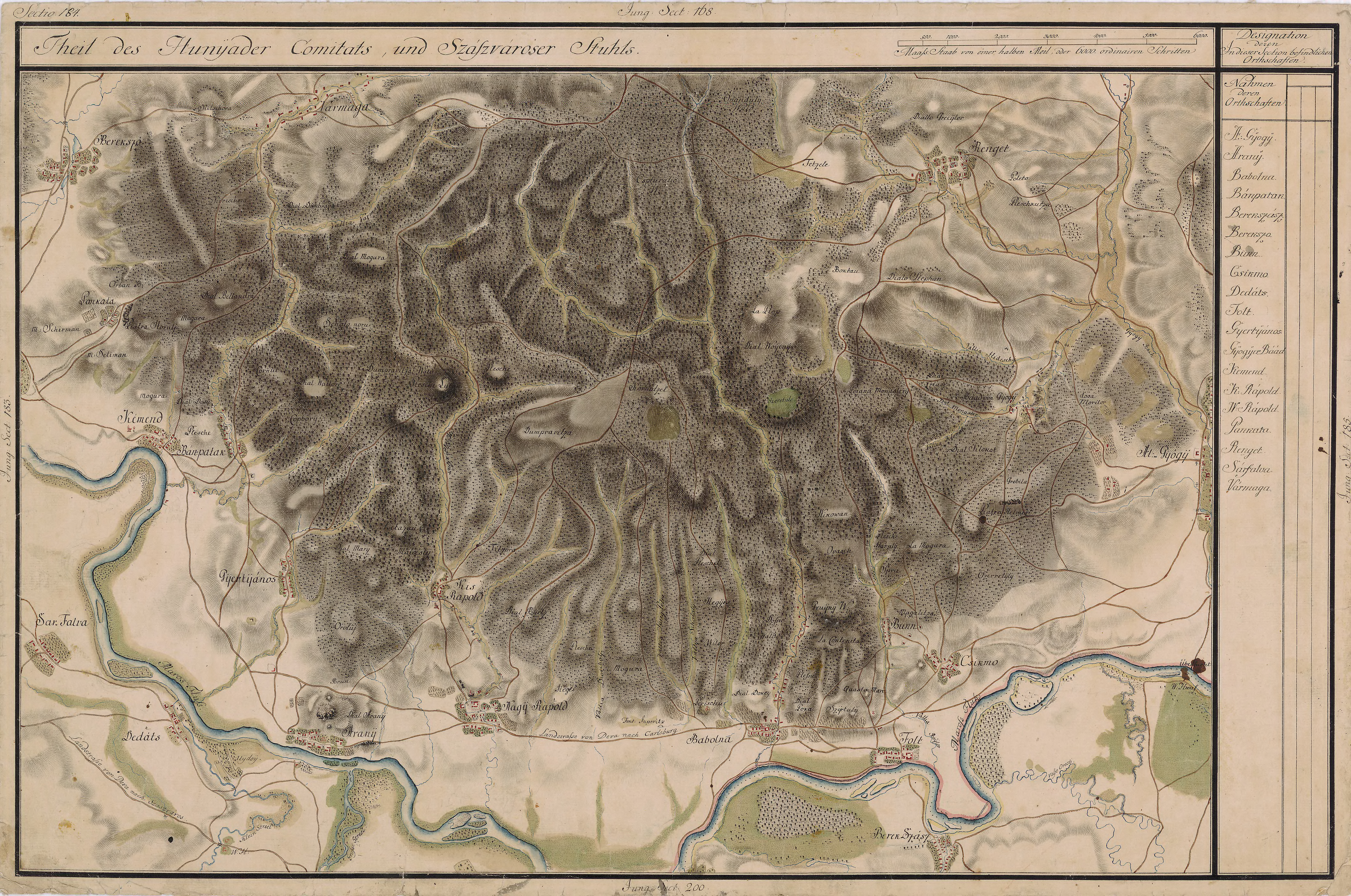 Grand Duchy of Transylvania, 1769-1773. Josephinische Landaufnahme pg.184